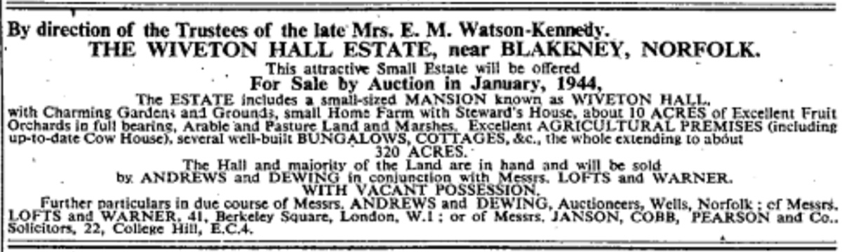 Advertisement for the sale of Wiveton Hall, Norfolk 1943